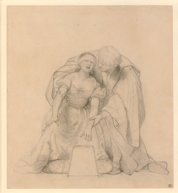 Study for The Execution of Lasy Jane Grey, by Paul Delaroche.